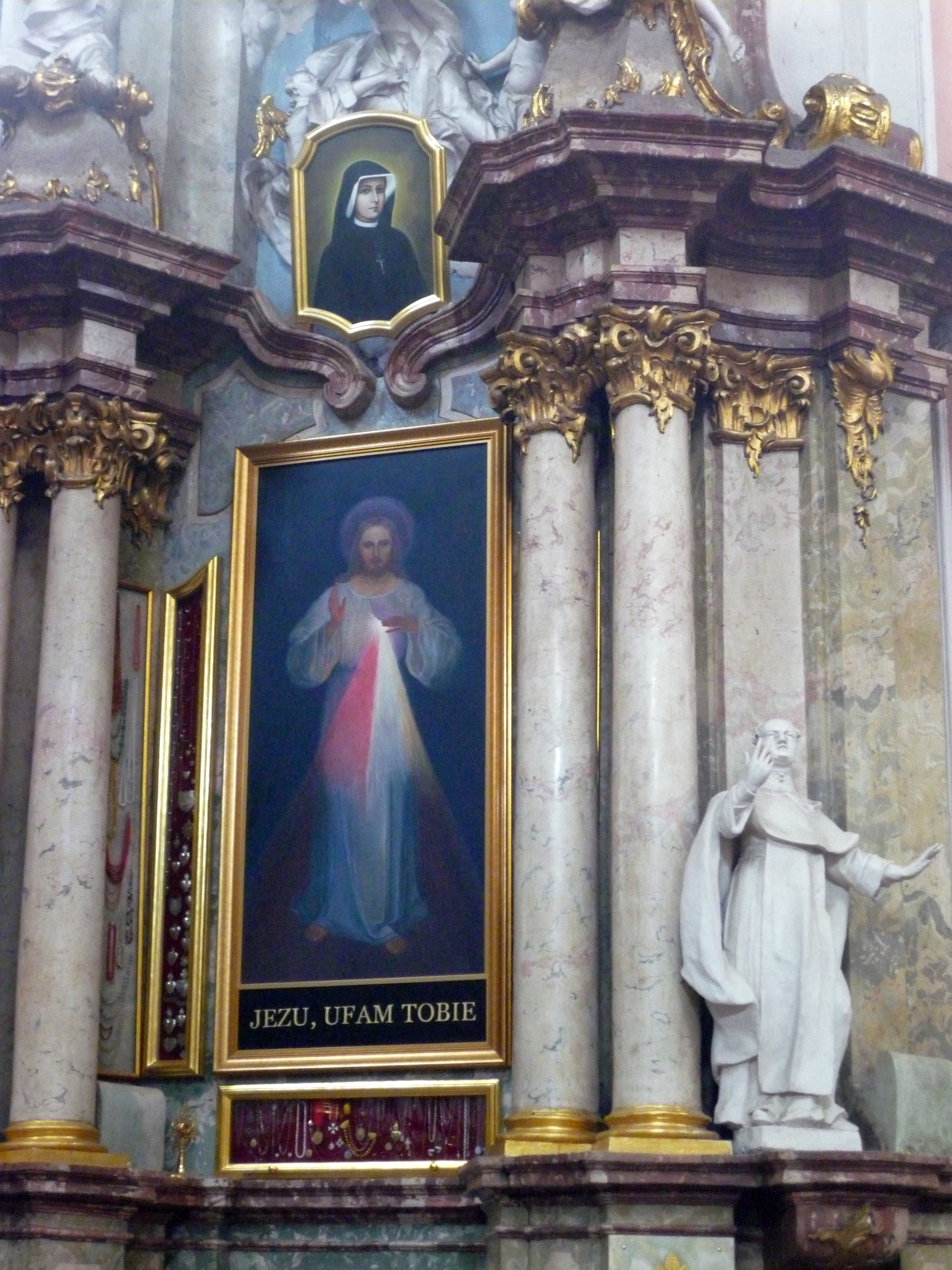 Church of the Holy Spirit in Vilnius (Divine Mercy: Jesus, I trust in You)